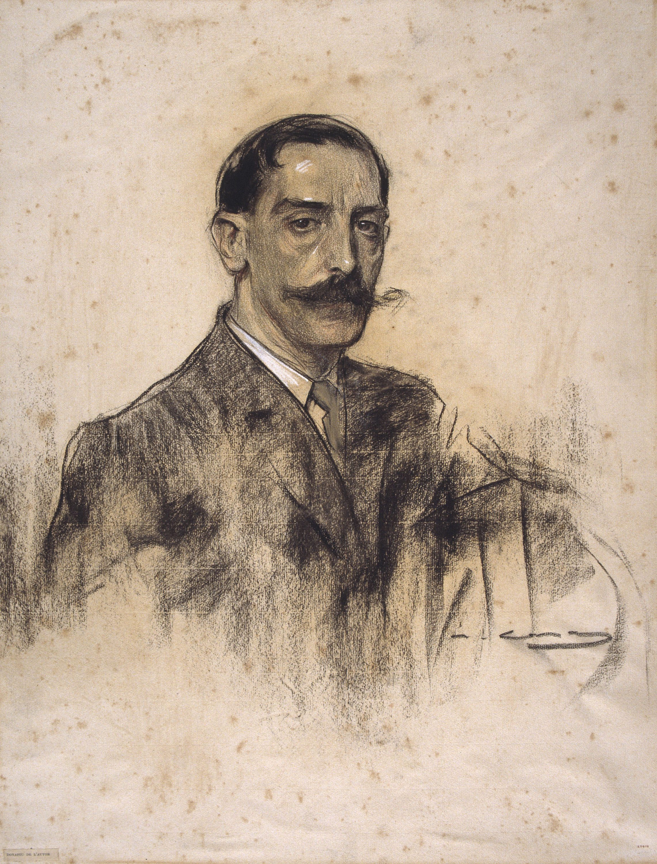 Portrait by Ramon Casas conserved at MNAC in Barcelona. Imagen 093